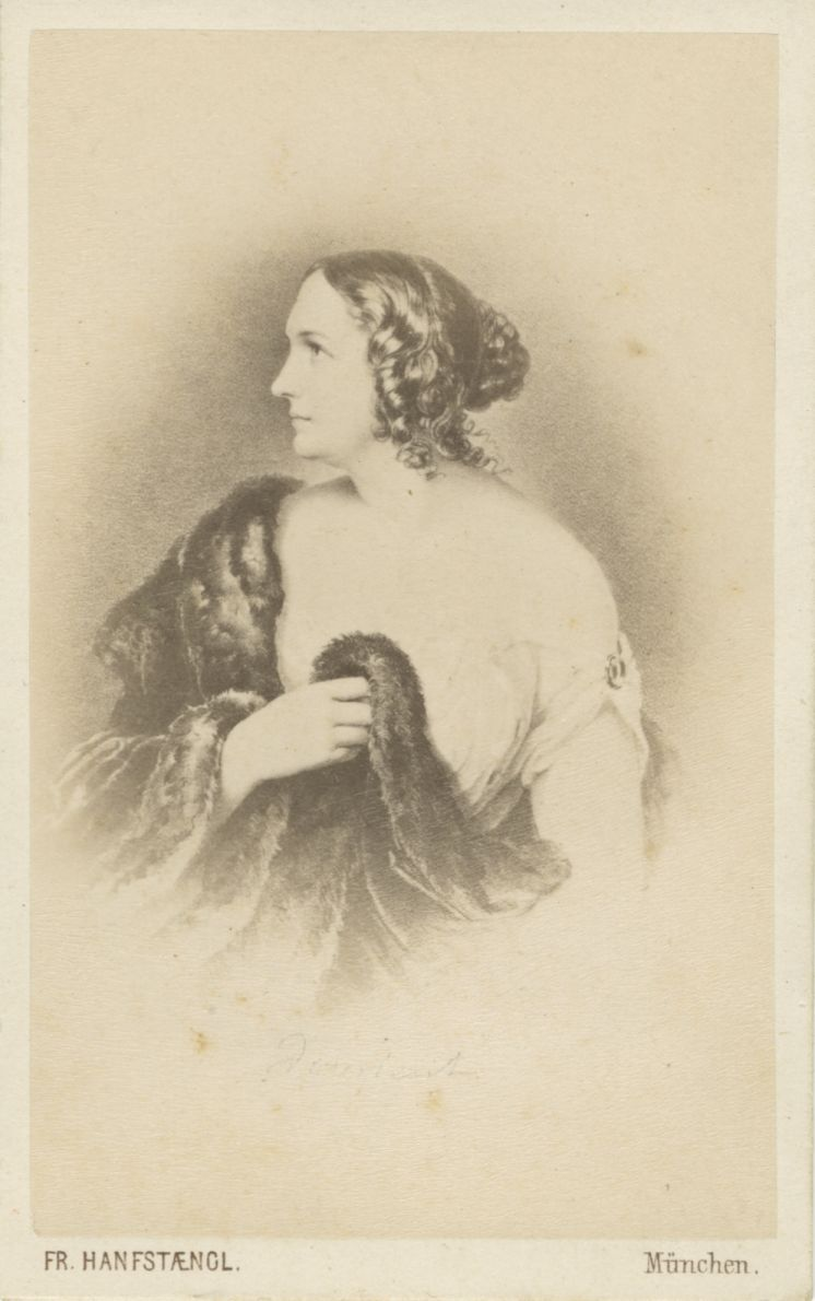 Artist: Fr.Hanfstængl Date/place: unknown date/Münich Subject: Wilhelmine Schröder-Devrient Medium: Photographic posetive Notes: German soprano. Born in Hamburg 06.12. 1804 - dead in Coburg 26.01. 1860 Original belongs to the Archives at [#//bergenbibliotek.no/digitale-samlinger” Bergen Public Library]